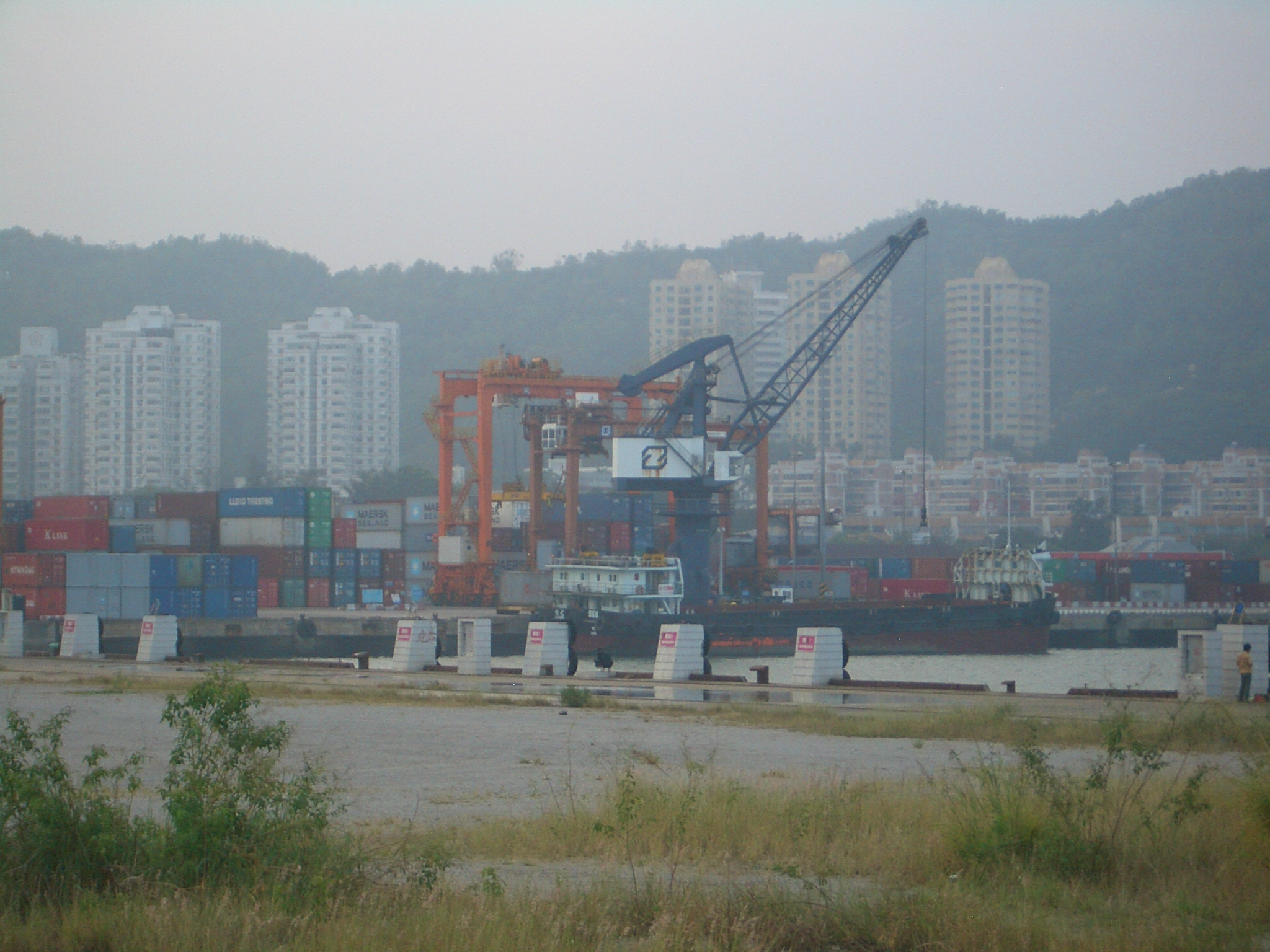 A view of the Jiuzhou Port in the city of Zhuhai